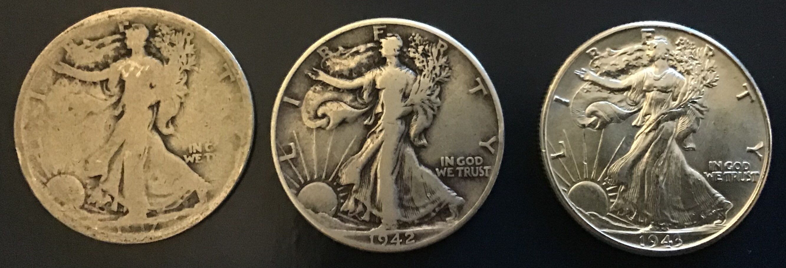 A selection of three Walking Liberty half dollars, bearing characteristics different coin grades on the Sheldon scale; From left to right, the coins are graded AG (About Good), F (Fine) and AU (About/Almost Uncirculated). The left and right coin were both purchased from APMEX and were shipped to the UK; the centre coin was purchased from an eBay seller based in the UK. The years and mint marks for the three coins are as follows: 1917-S, 1942-P and 1943-P.